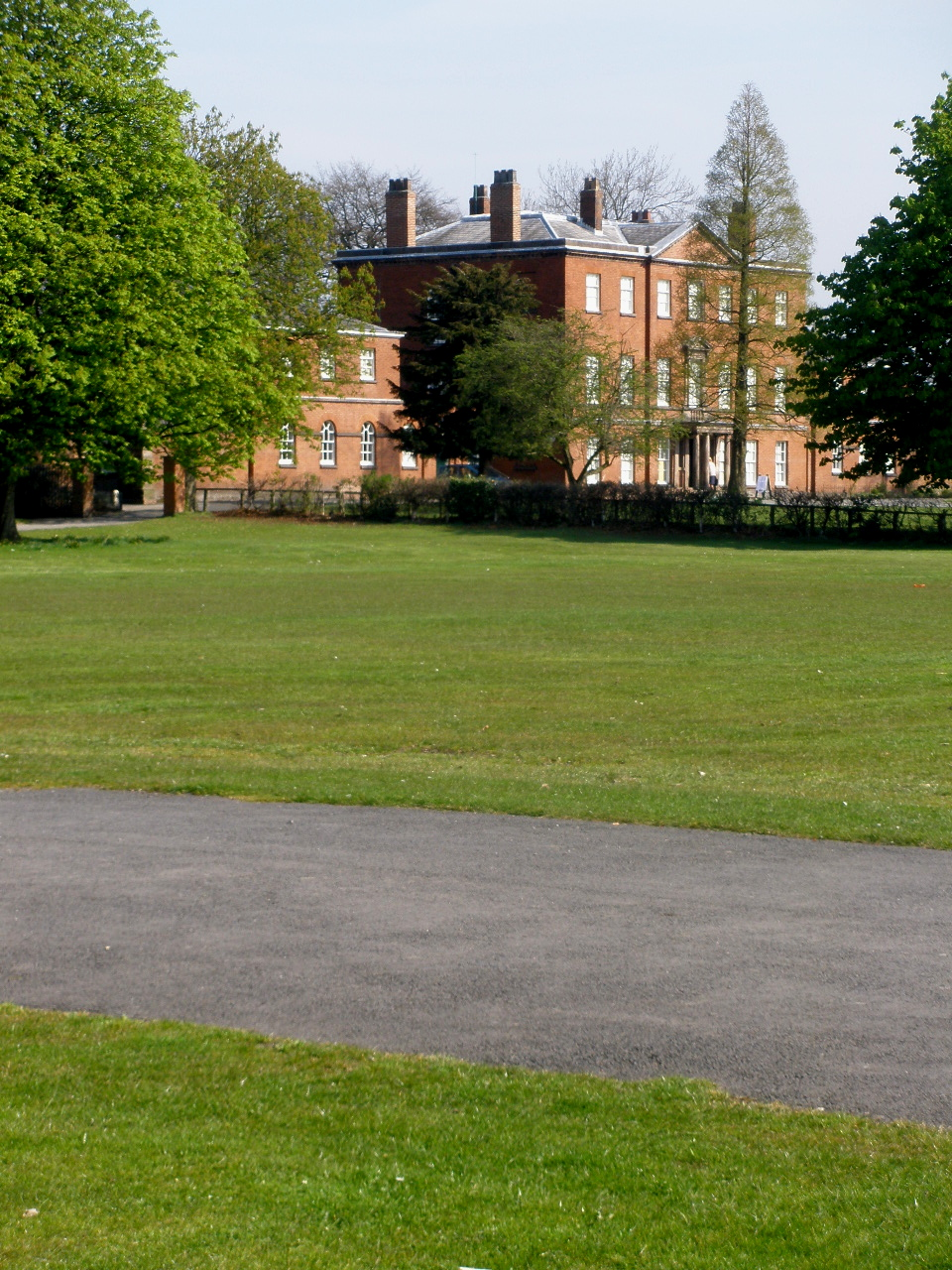 Costume Museum from Plattfields Park, Fallowfield, Manchester